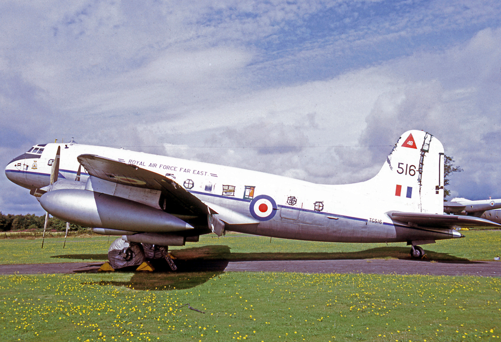 HP Hastings C.1 TG516 of 48 Squadron RAF at RAF Shawbury in 1971